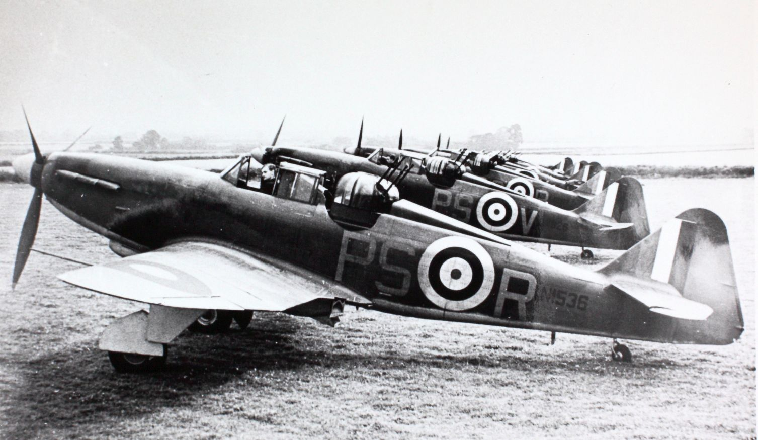 Image from the Charles Daniels Photo Collection album "British Aircraft." SOURCE INSTITUTION: San Diego Air and Space Museum Archive